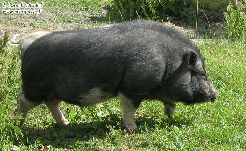 Minipig (not the same breed as Potbellypig) roaming around. Note the good athletics and sound condition. The size of this 5 yrs old pig is around 40 kgs.